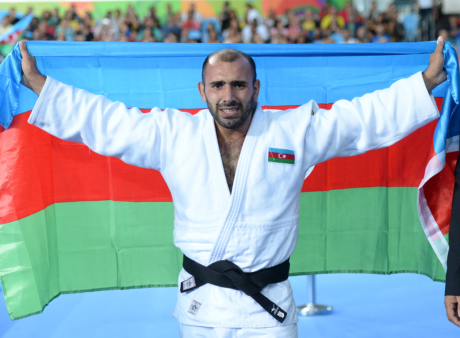 Judo at the 2016 Summer Paralympics – Men's 81 kg, Safarov vs Drane